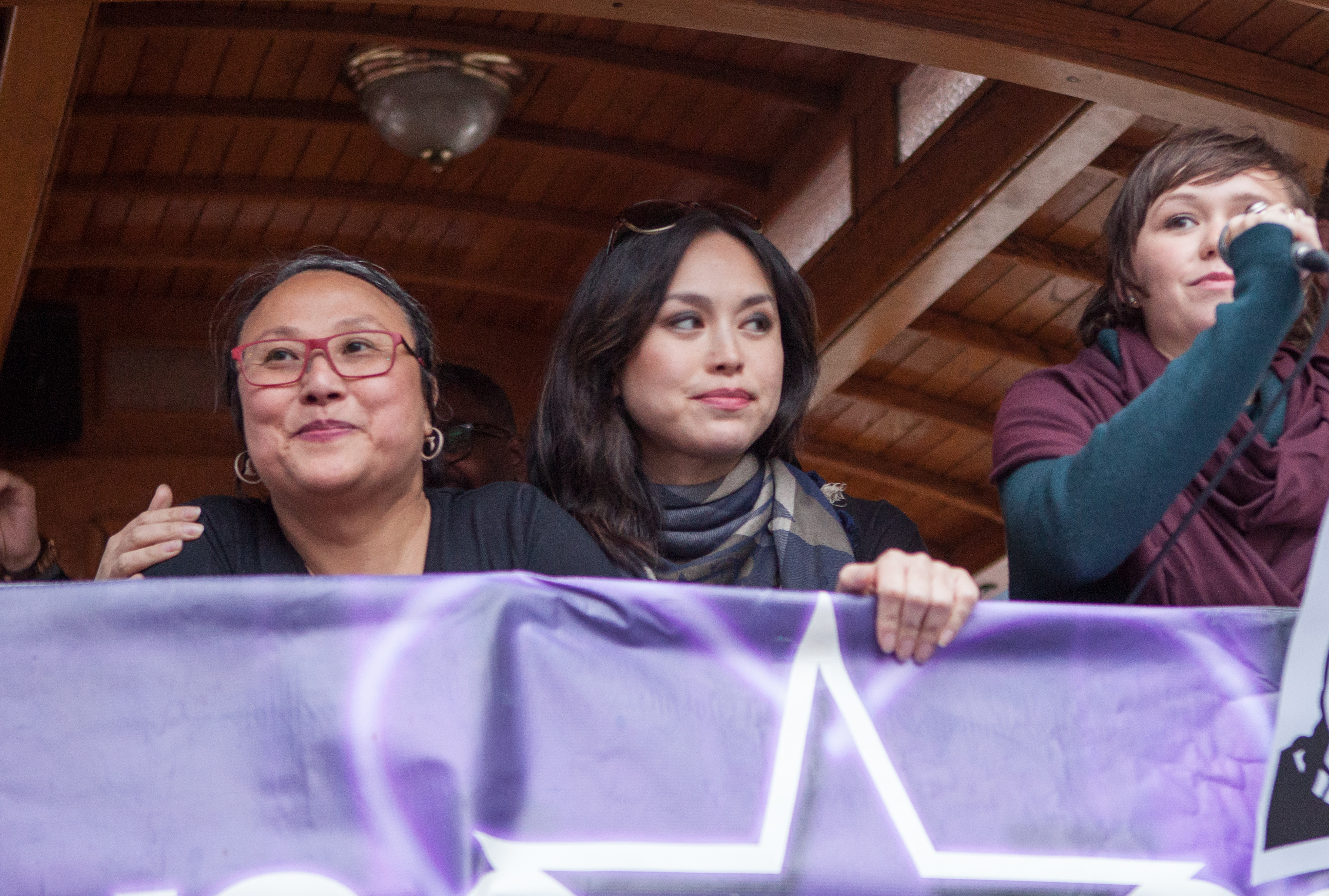 Cecilia Chung stands with "When We Rise" miniseries actors Ivory Aquino (who portrayed Chung in that series) and Emily Skeggs at Trans March San Francisco 2017.